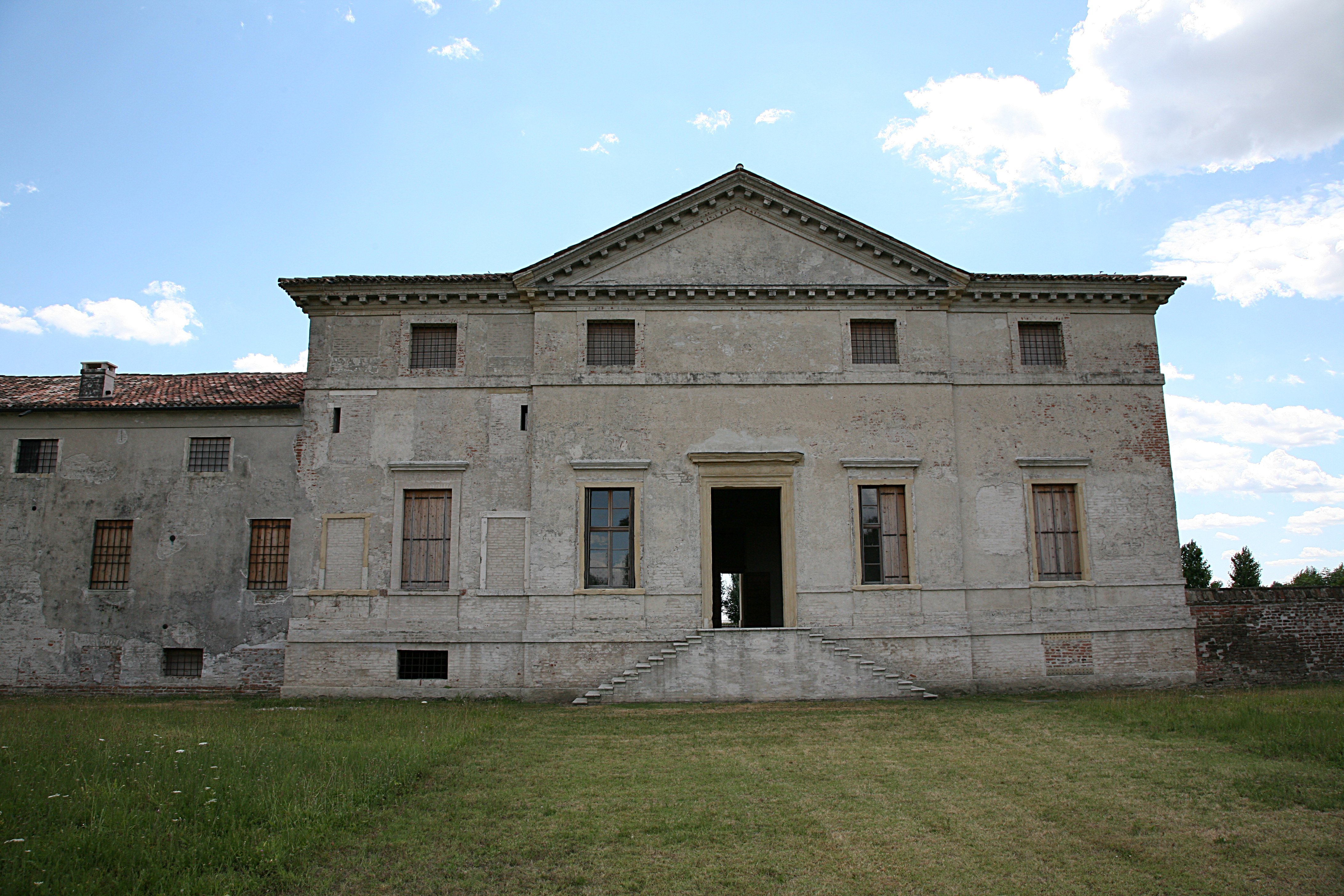 A Villa at Finale of Agugliaro in Italy. Designed by Andrea Palladio